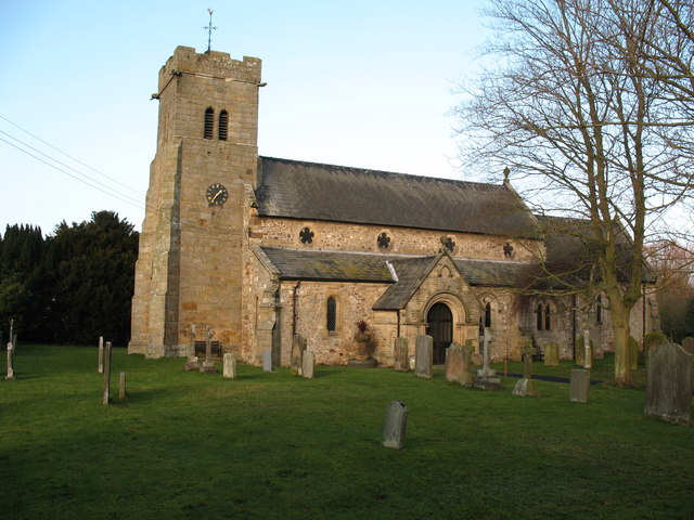 St Radegund's parish church, Scruton, North Yorkshire, seen from the south